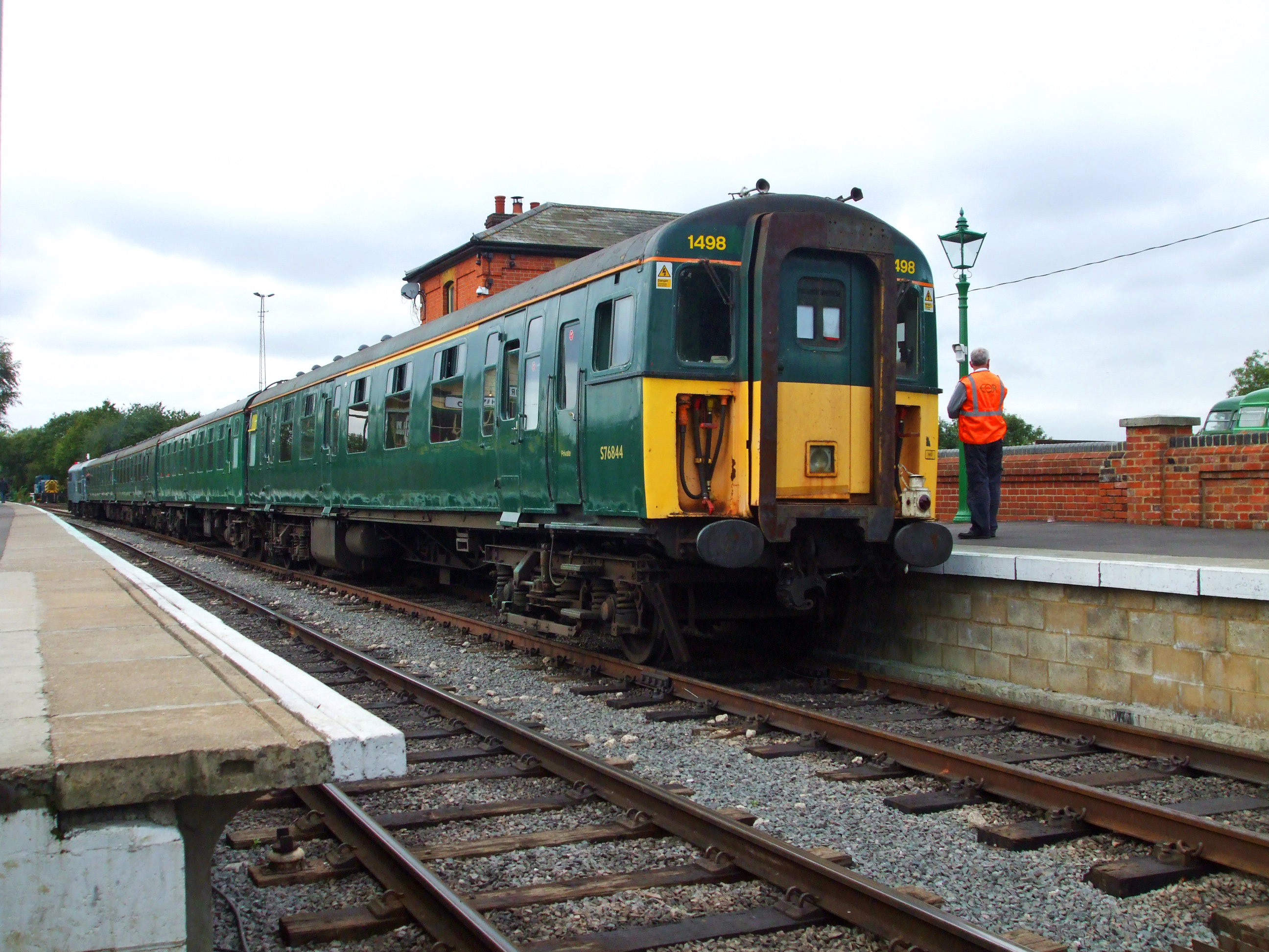 4CIG (Class 421) Unit 1498 at North Weald with an Epping Ongar Railway train in 2012. Class 31 loco 31438 can be seen at the rear. It finished its service on the Southern Region as a 3CIG, but an extra carriage was added in 2012 upon entry into EOR service, to restore its original four carriages. However, due to the lack of conductor rails on EOR, it is presently unpowered, acting as a push-pull Trailer Control unit, powered by a diesel (or steam) locomotive.